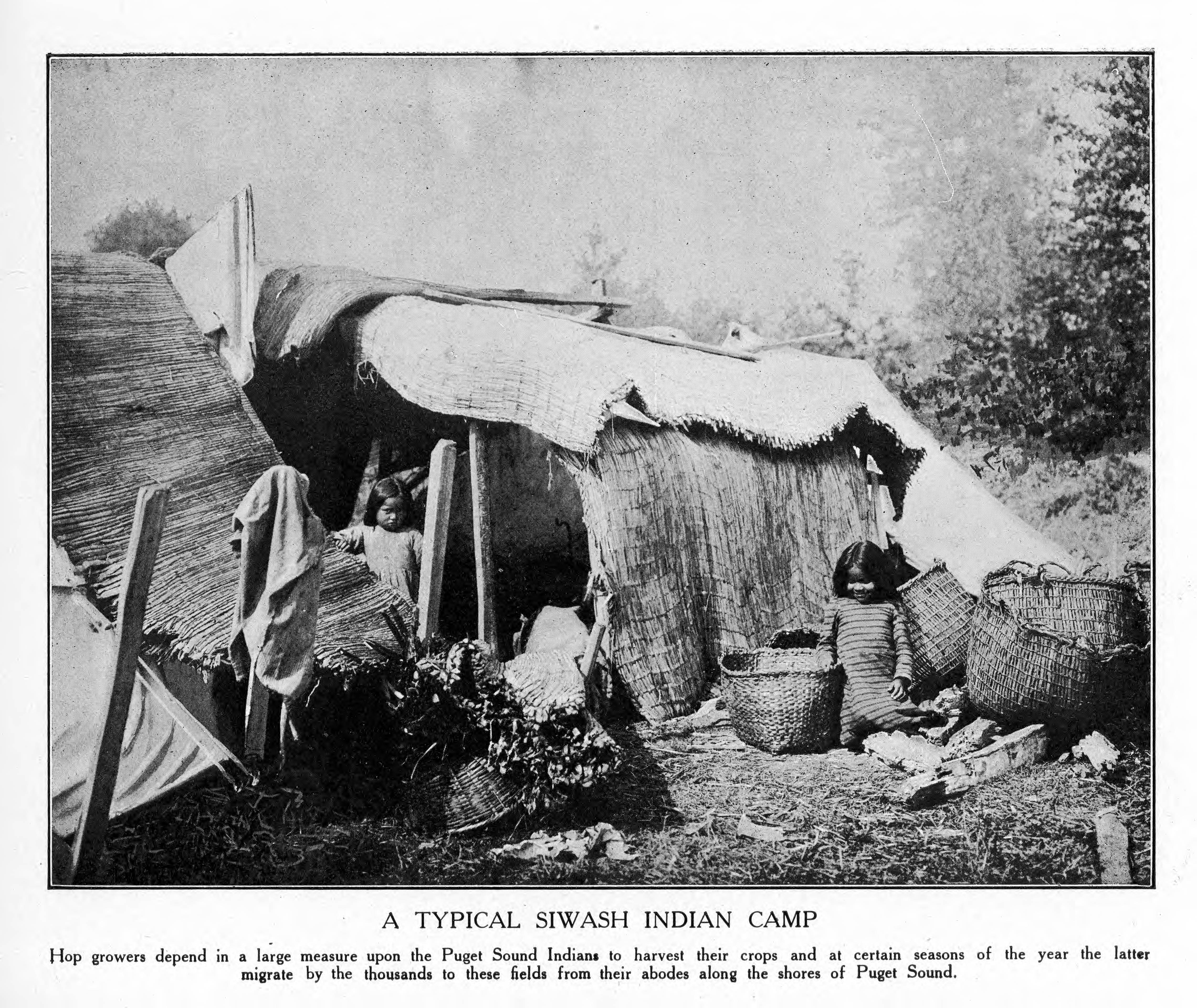 From the materials for the Alaska-Yukon-Pacific Exposition of 1909, held in Seattle. "A Typical Siwash Indian Camp. Hop growers depend in a large measure on these Puget Sound Indians to harvest their crops and at certain seasons of the year the latter migrate by the thousands to these fields from their abodes along the shores of Puget Sound." At the time, there was considerable hop-growing in the Puget Sound region. Now that crop is grown almost entirely east of the Cascade Mountains. The word Siwash, which derives from "Salish", is now considered an ethnic slur.